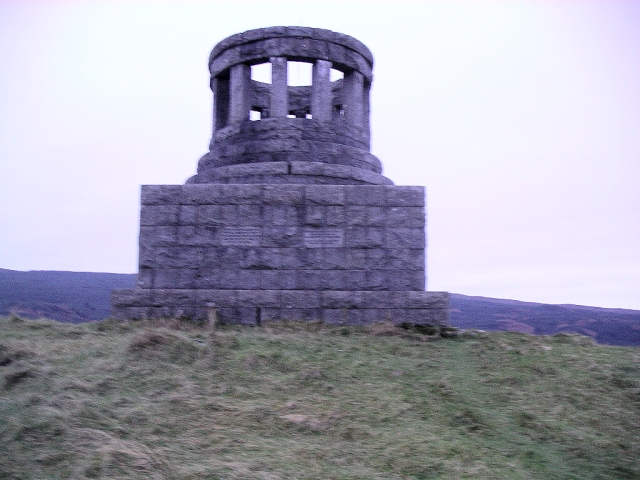 Monument to Duncan Ban MacIntyre. Duncan Ban MacIntyre (Donnchcadh Ban Mac an t-Saoir) ("Fair" Duncan) Gaelic Poet 1724 - 1812. The monument to Duncan Ban MacIntyre near Dalmally was raised by Public Subscription in 1859. Built alongside the Old Military Road from Inveraray to Dalmally.